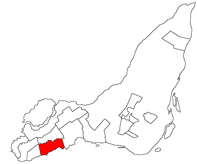 Map of Beaconsfield on the Isle of Montreal